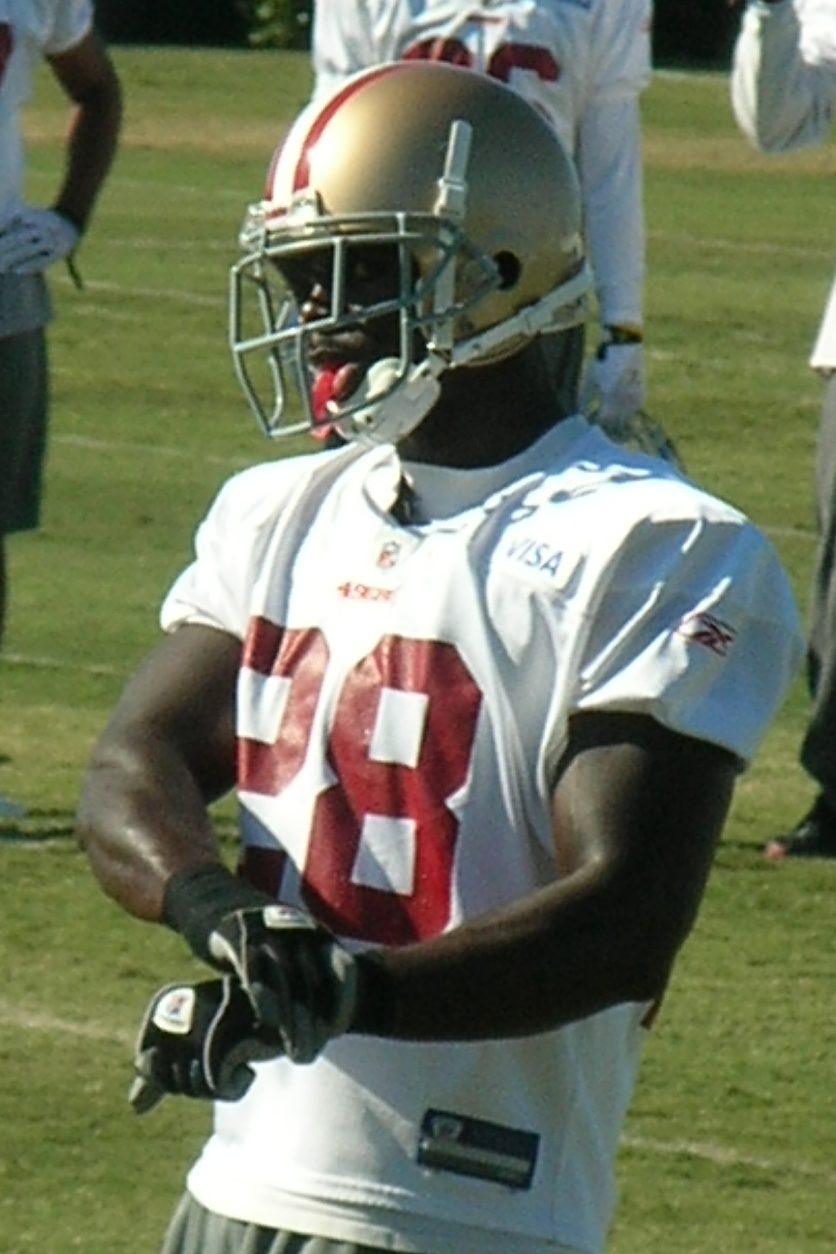 San Francisco 49ers safety Curtis Taylor at training camp in Santa Clara, California.